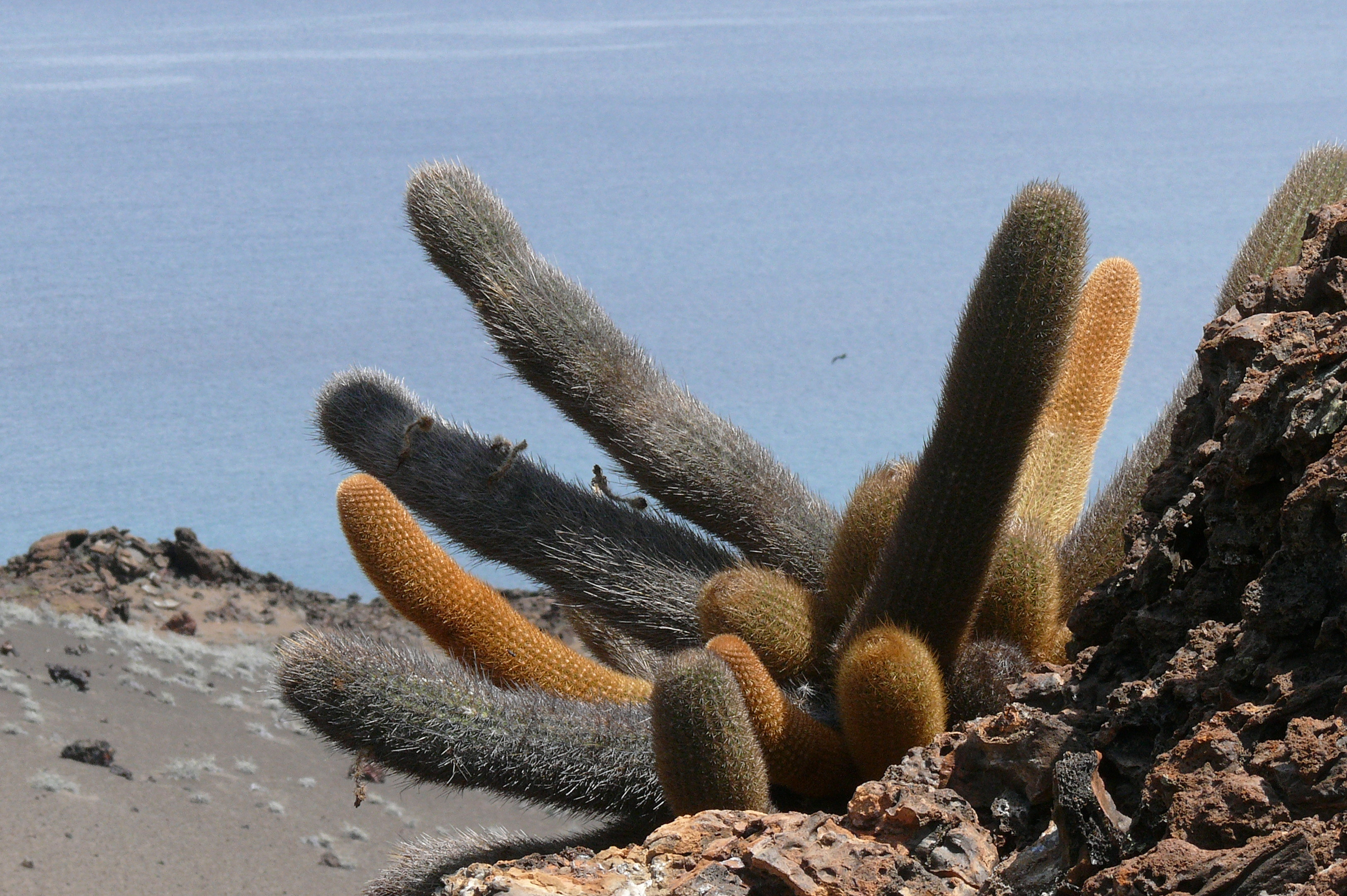 Lava cactus (Brachycereus nesioticus)